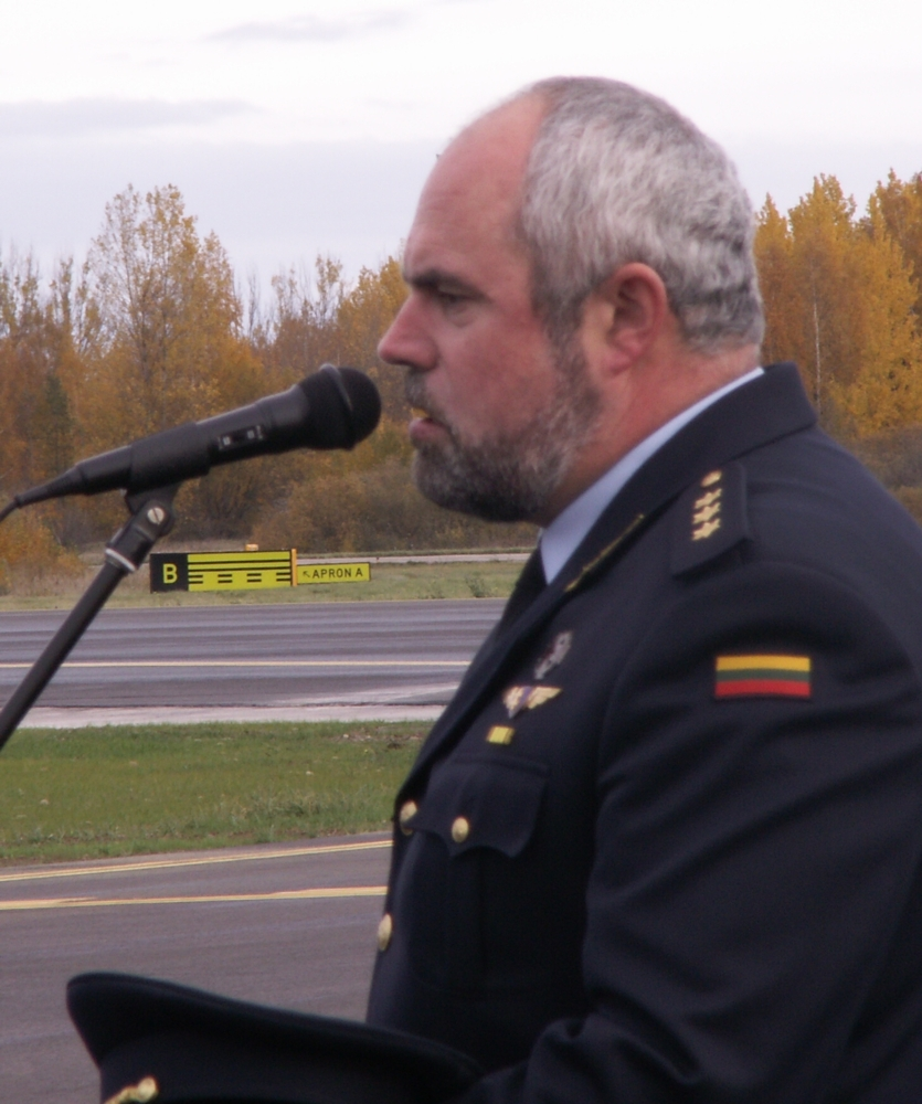 Veilentas Virginijus head priest of Lithuanian army